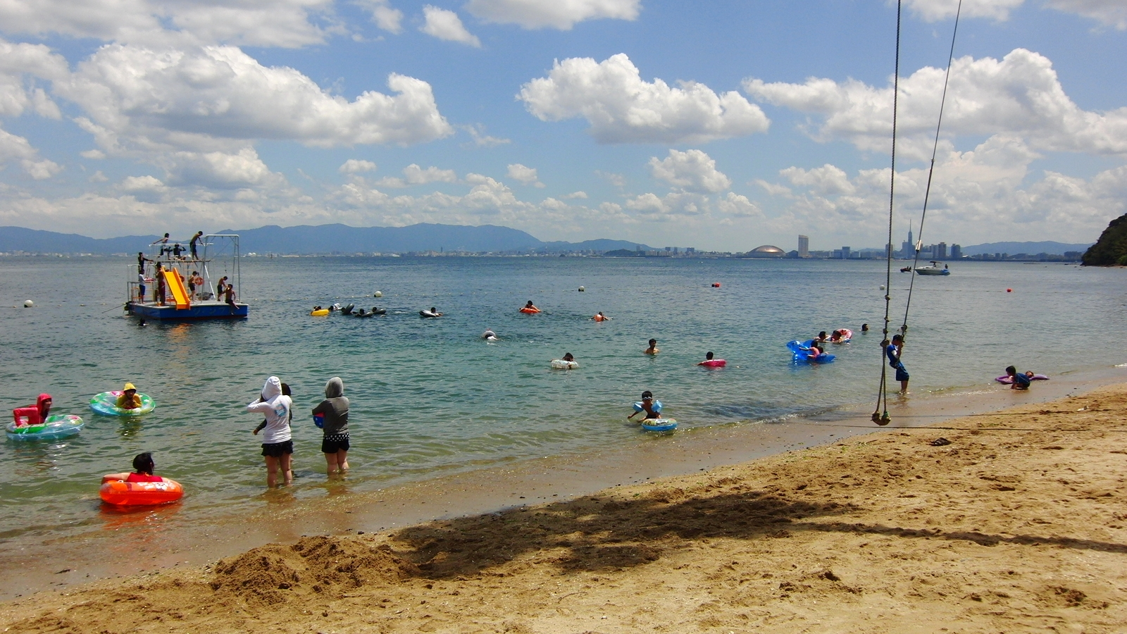 The beach of the Nokonoshima Camp Village, Nokonoshima Island, Fukuoka, Japan